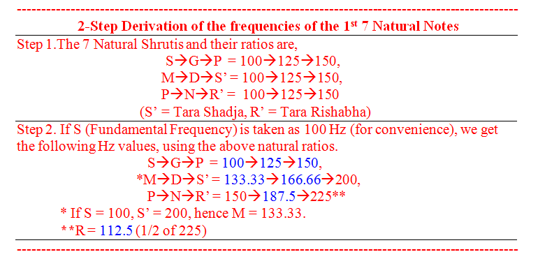 2-Step Derivation of the frequencies of the 1st 7 Natural Notes